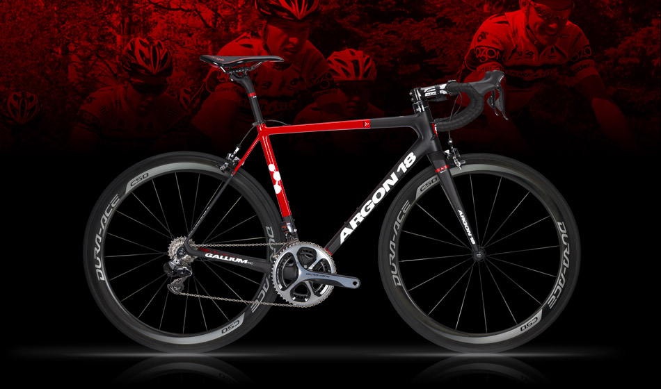 Argon 18 - Gallium Pro 2014